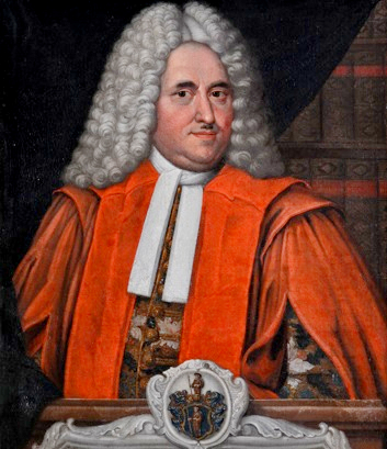 Christianus Thomasius (1655–1728), Professor of Law, oil painting in the historic Sessionssaal (conference hall) of the Martin Luther University in Halle (Saale), Germany, photographed by Markus Scholz (cropped and brightened with FotoJet)